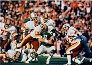 A football card from the 1986 Jeno's Pizza NFL football card stickers set of Washington Redskins safety Mark Murphy (left) tackles Miami Dolphins running back Andra Franklin (right) in Super Bowl XVII at the Rose Bowl on January 30, 1983. The card is numbered #9 in the set. The back of the card reads: HERE COME THE REDSKINS Washington safety Murphy (29) leads a four-man defensive swarm, as he tackles Miami's Andra Franklin in Super Bowl XVII. The Redskins came from behind twice to win the game 27-17. Murphy, who led the team in tackles during the year, also broke up a Miami drive in the Super Bowl with an interception on the Washington 5-yard line.